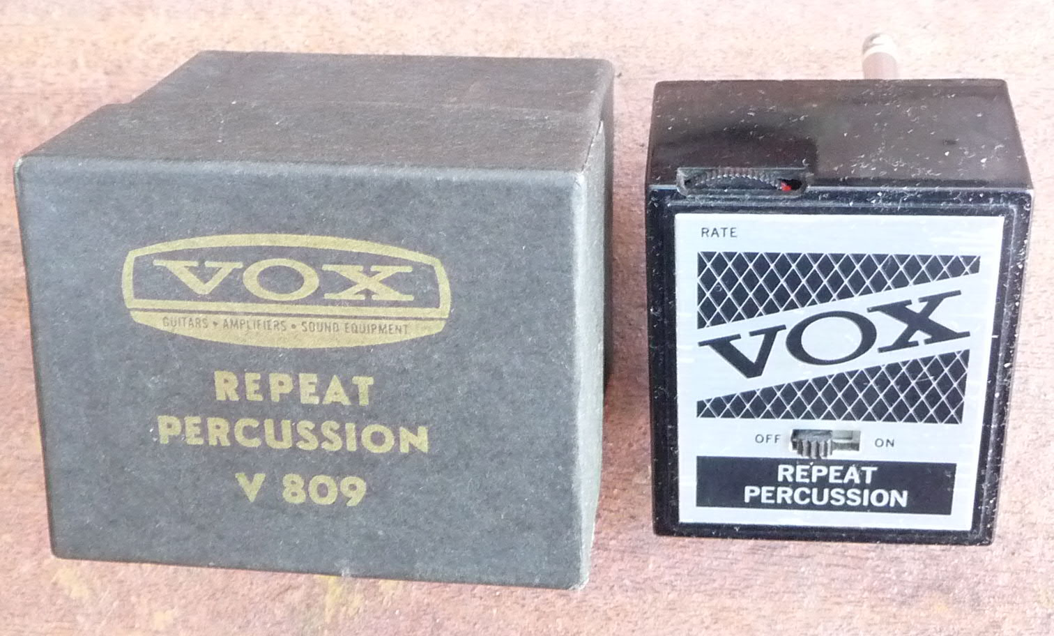 Vox V 809 Repeat Percussion guitar effect operated by PP3 9 volt battery, direct plug-in with rear jack plug and bottom socket, or by in-line cable